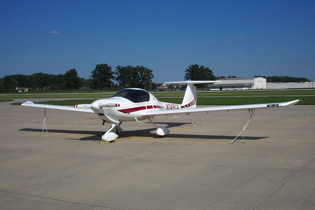 1999 Diamond DA20-C1 on the ramp